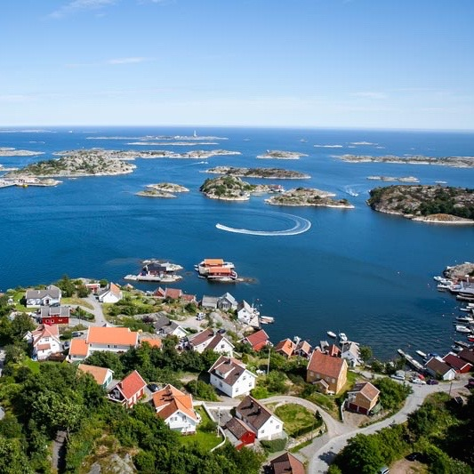 Flekkerøy flyfoto